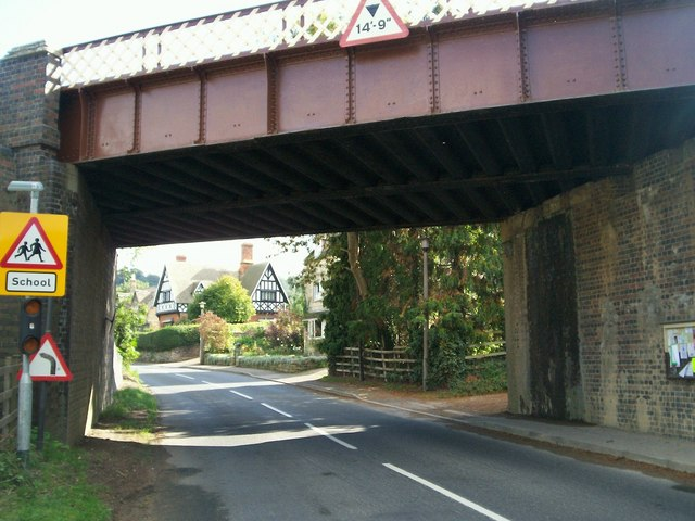 The Old Parsonage. Viewed under the bridge carrying the preserved Gloucestershire & Warwickshire Railway line.